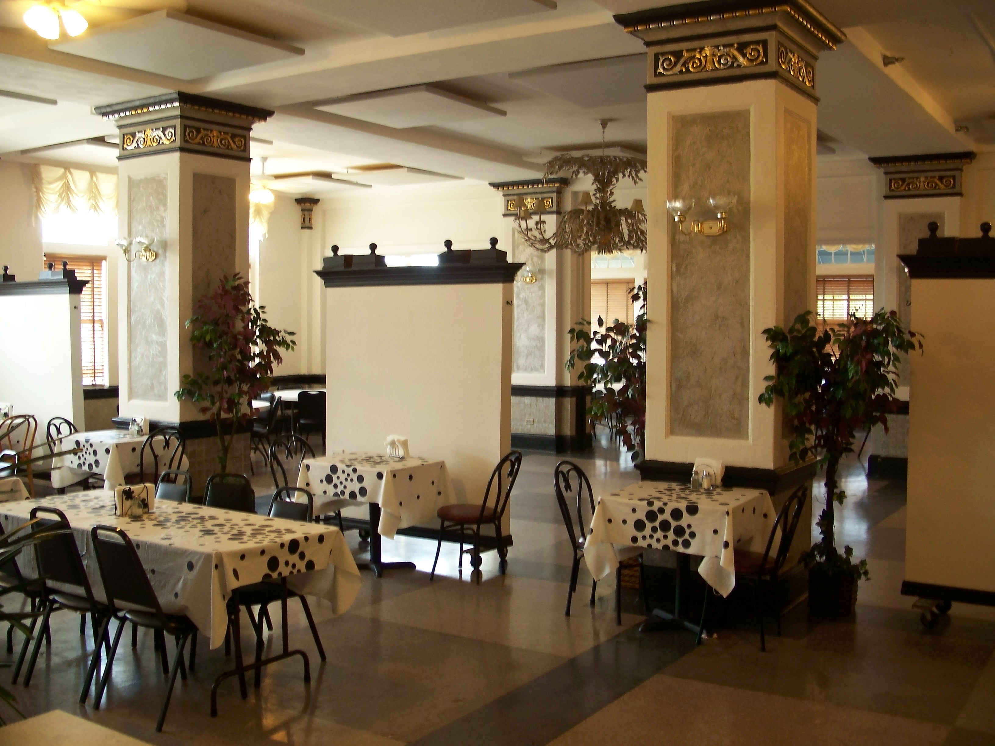 Interior of the former Marion Hotel, in Ocala, Florida